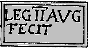 Dedication to Jupiter Optimus Maximus of Doliche, Bewcastle/Fanum Cocidi (GB), found 1852.